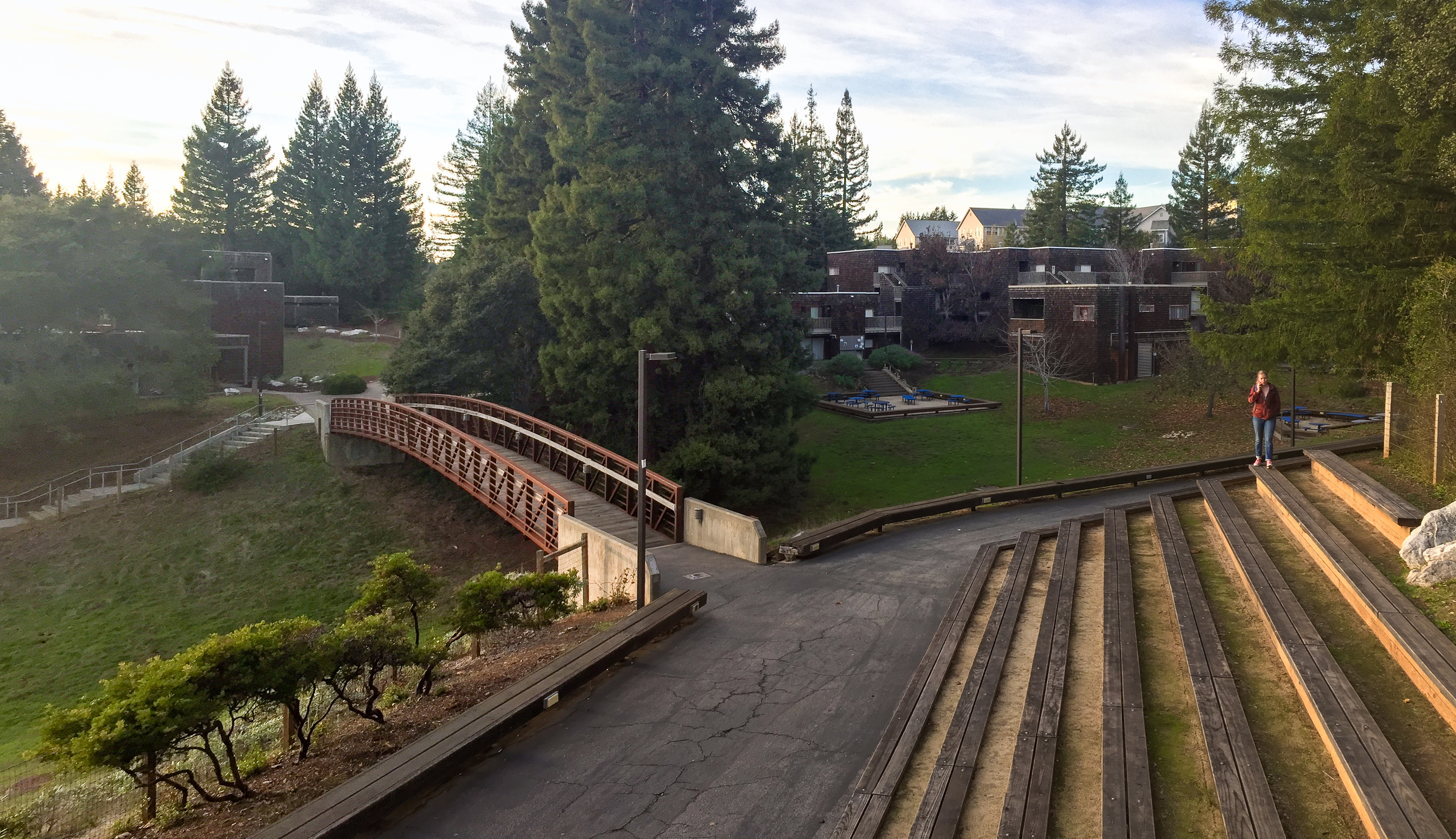 A wide-angle image of Oakes College as seen from the southern end of the amphitheater steps. The rust-coloured Oakes Bridge links the academic and administrative buildings with the undergraduate dormitories located across the ravine.